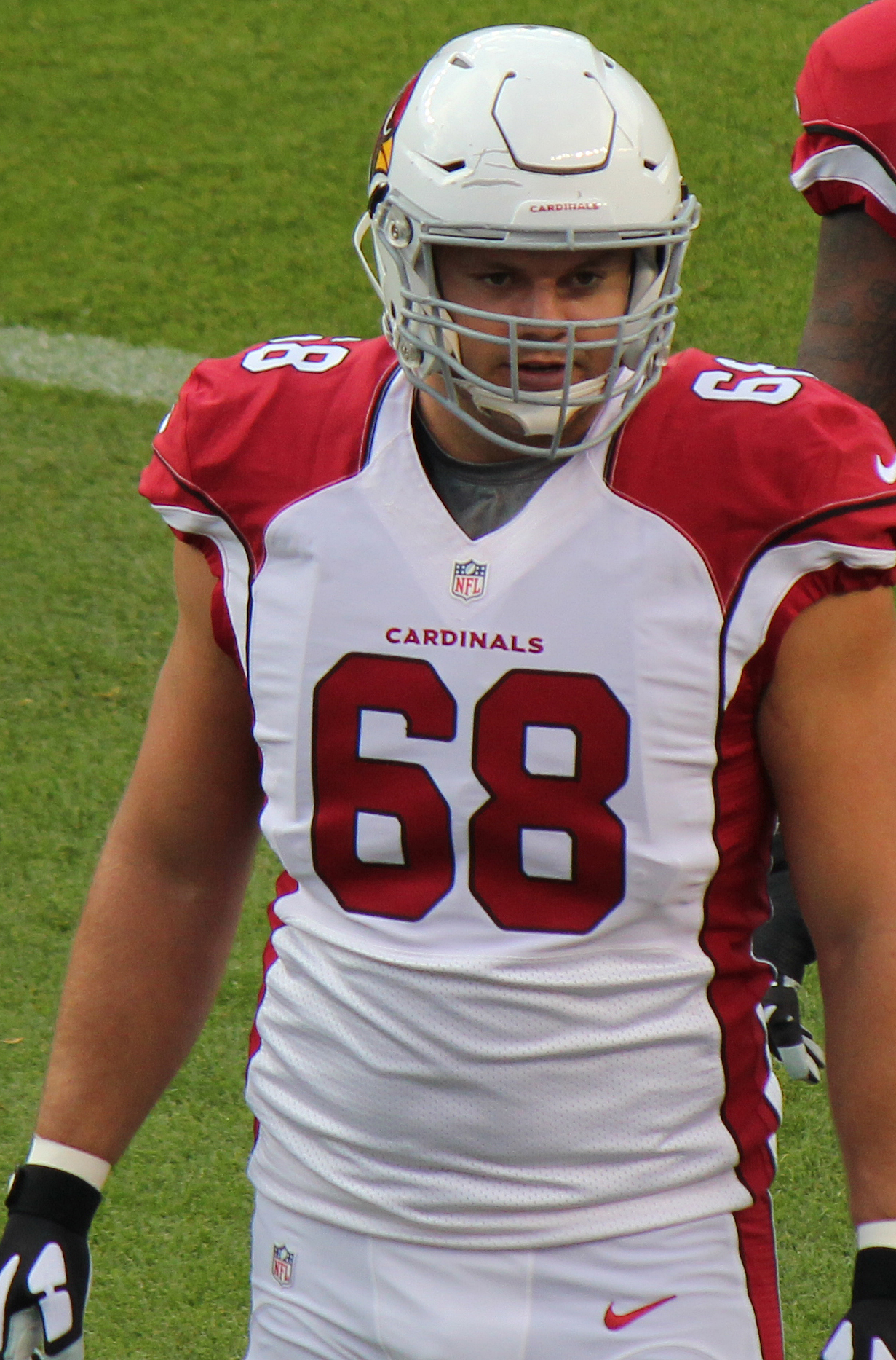 Jared Veldheer, a player on the National Football League.